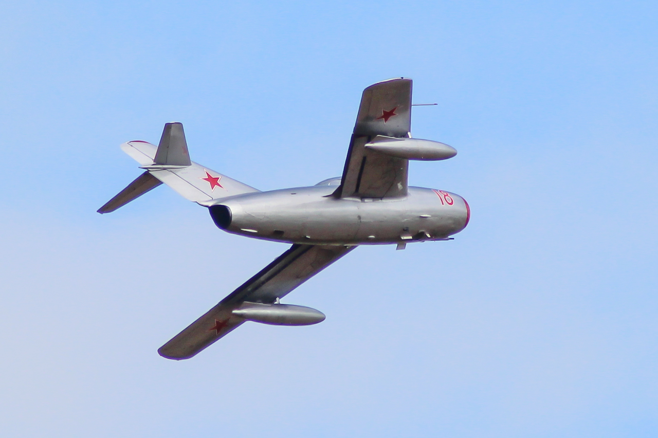 Aircraft taking part in the Scottish International Airshow 2017 seen at Prestwick Airport